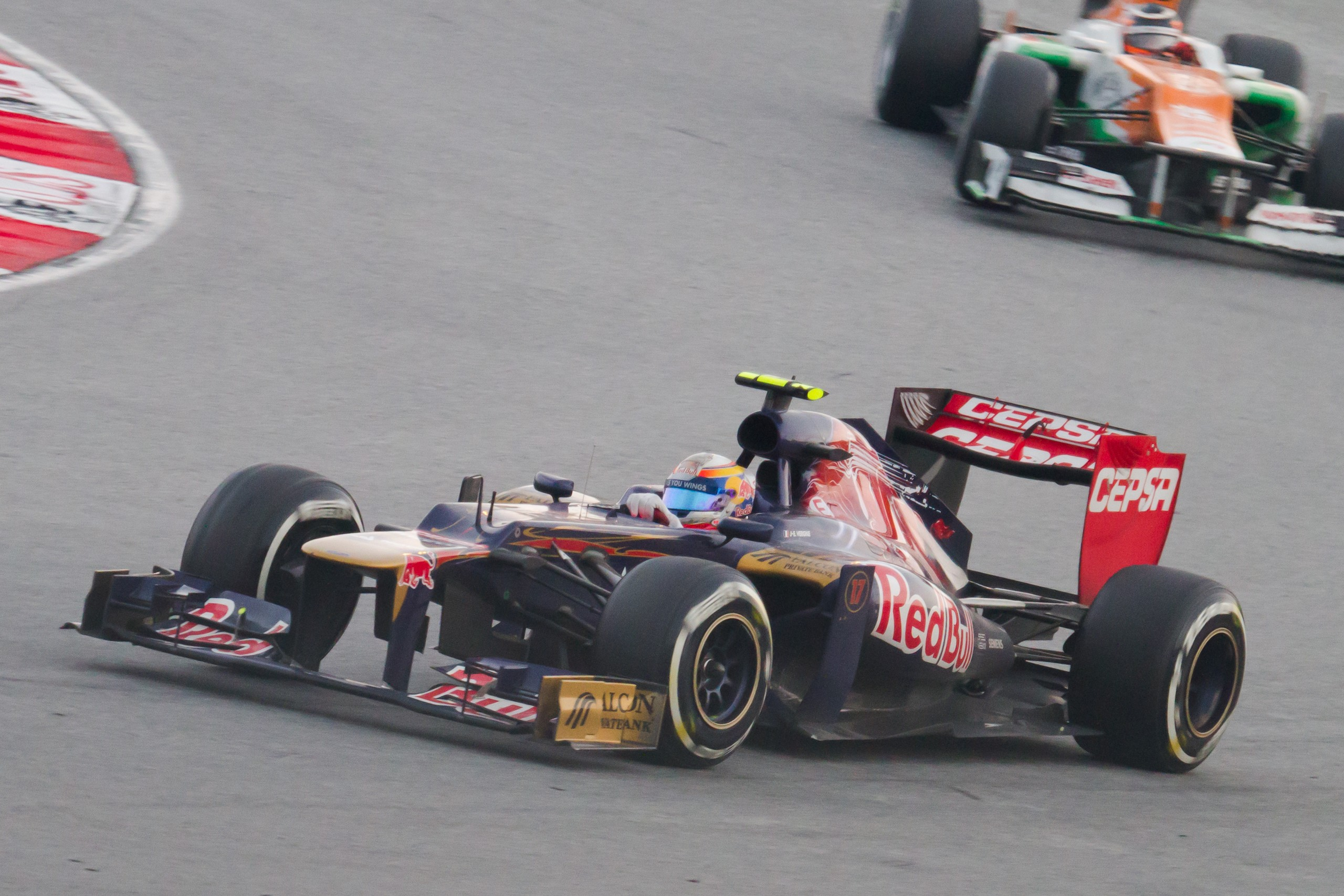 Formula One 2012 Rd.2 Malaysian GP: Jean-Éric Vergne (Toro Rosso) during the race on Sunday.